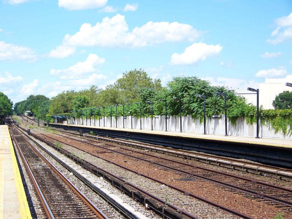 View of Aqueduct - North Conduit Avenue station from the south end of the platforms. The Aqueduct Racetrack station is visible in the distance.